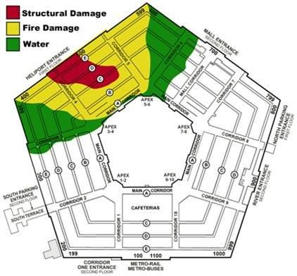 Graphic showing fire and water damage to the Pentagon as a result of the 9-11 terrorist attack.